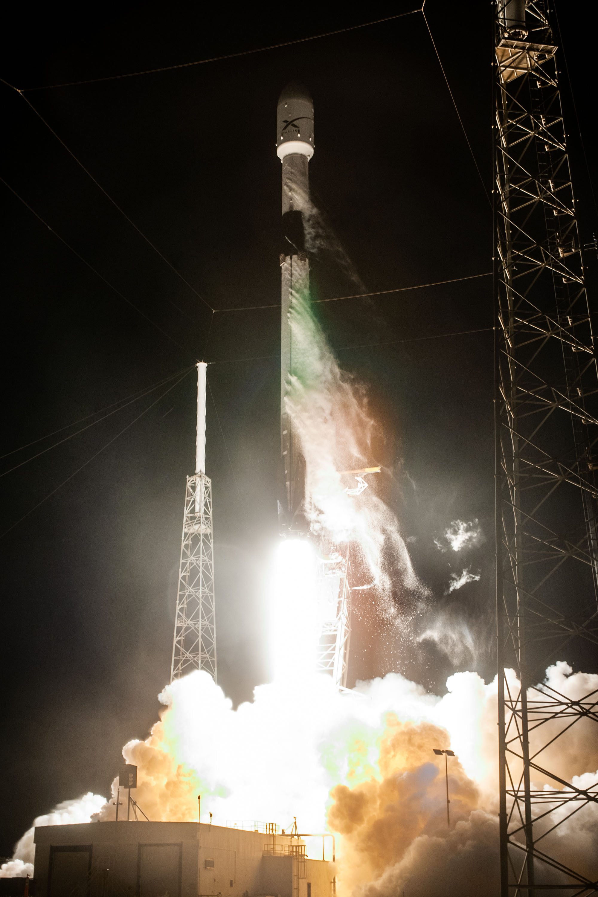 Starlink Mission